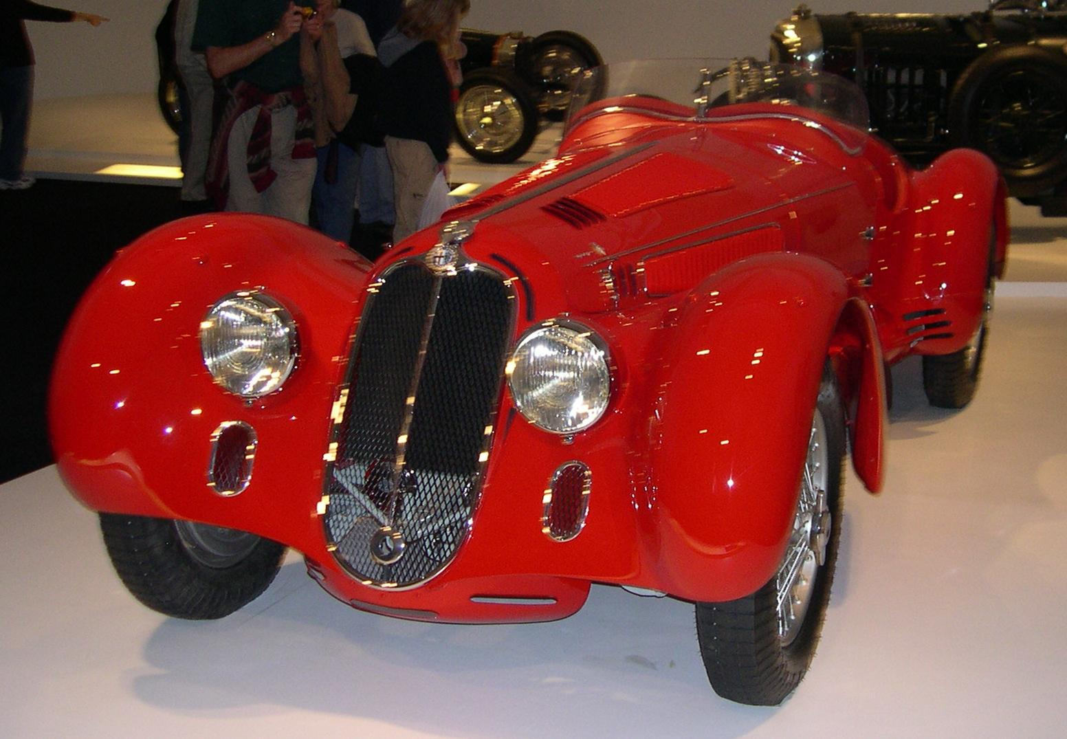 1938 Alfa Romeo 8C 2900 Mille Miglia From the Ralph Lauren collection on display at the Boston Museum of Fine Arts. Photo taken in 2005.